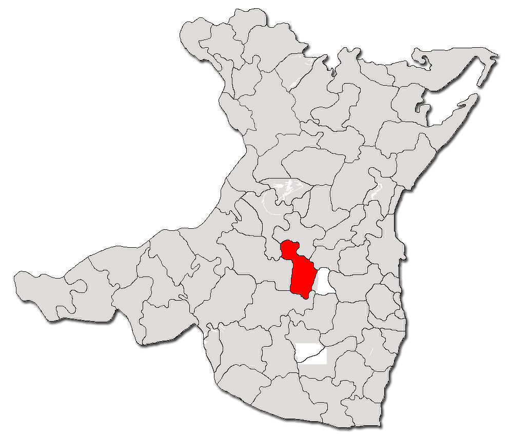 Contour map of commune 23 August